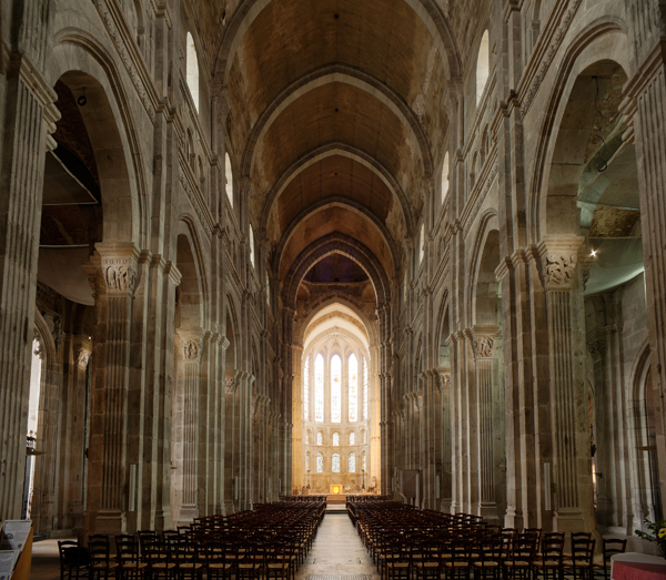 Cathédrale; Autun, dèpartement de Saône-et-Loire, France; la nef; ref: PM_082612_F_Autun; Cathédrale Saint-Lazare d'Autun; Photographer: Paul M.R. Maeyaert; © Paul M.R. Maeyaert; ; Cultural heritage; Cultural heritage/Cathedral; Europeana